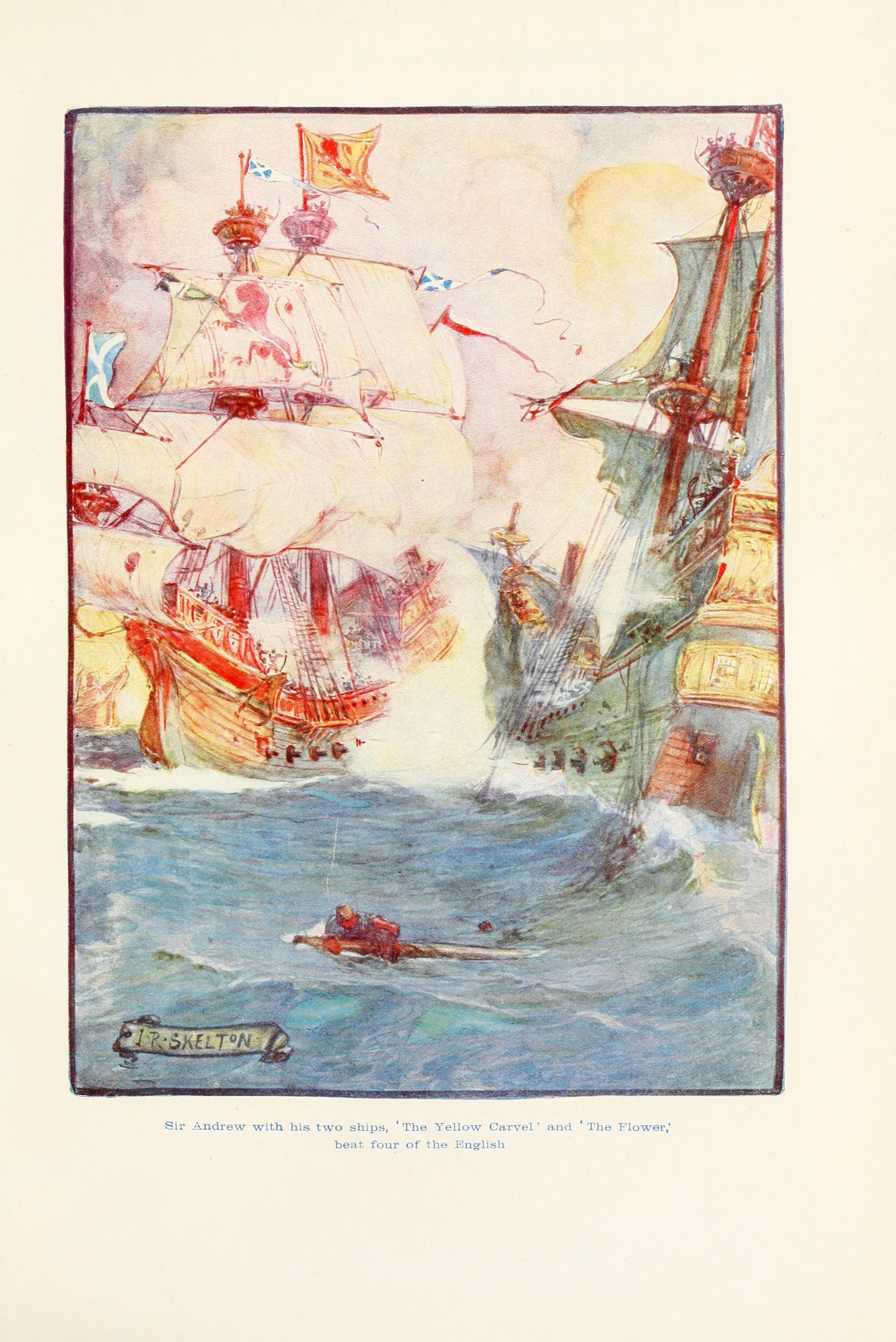 Scotland's story : a history of Scotland for boys and girls by Marshall, H. E. (Henrietta Elizabeth), b. 1876 Published 1907 SHOW MORE List of Kings from Duncan I.: p. 419-421 Publisher London : T.C. & E.C. Jack Pages 496 Possible copyright status NOT_IN_COPYRIGHT Language English Digitizing sponsor MSN Book contributor New York Public Library Collection newyorkpubliclibrary; americana Full catalog record MARCXML [Open Library icon]This book has an editable web page on Open Library.